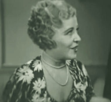 Ethel Clayton in Rich Relations (1937) - cropped screenshot